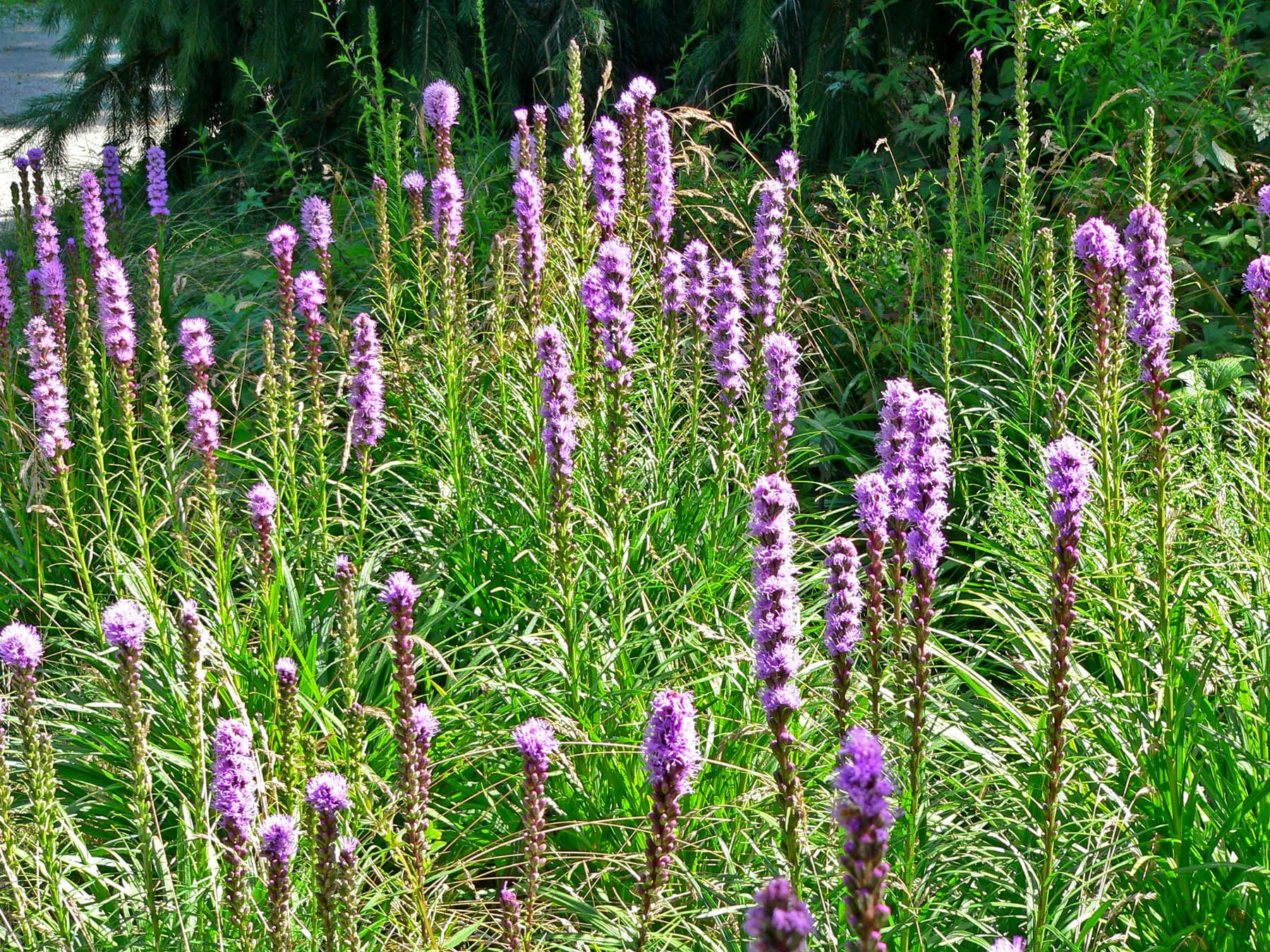 Photo of Liatris spicata at VanDusen Botanical Garden